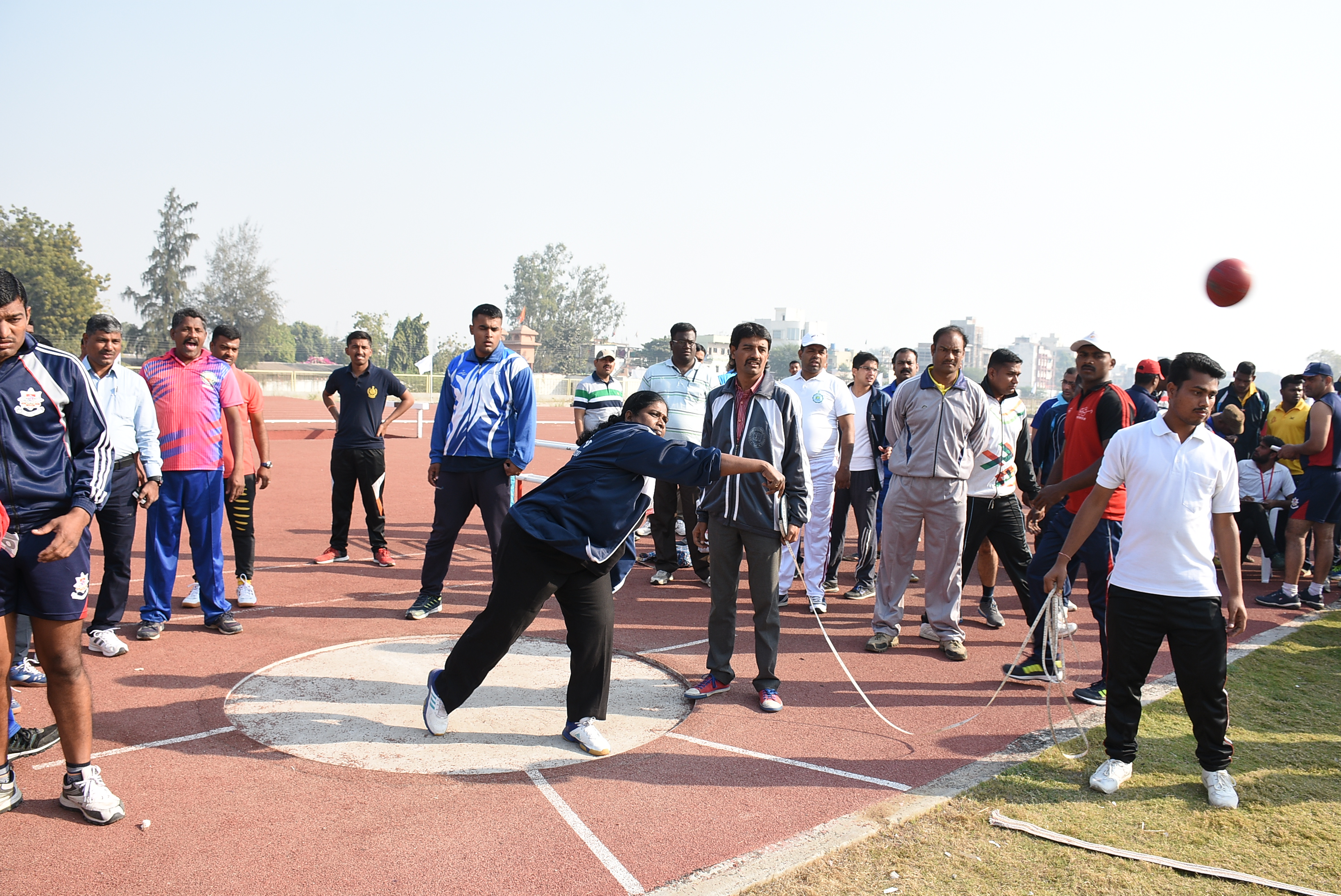 National Fire Games-2018